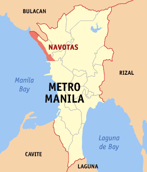 Locator map of Navotas City in Metro Manila, Philippines.